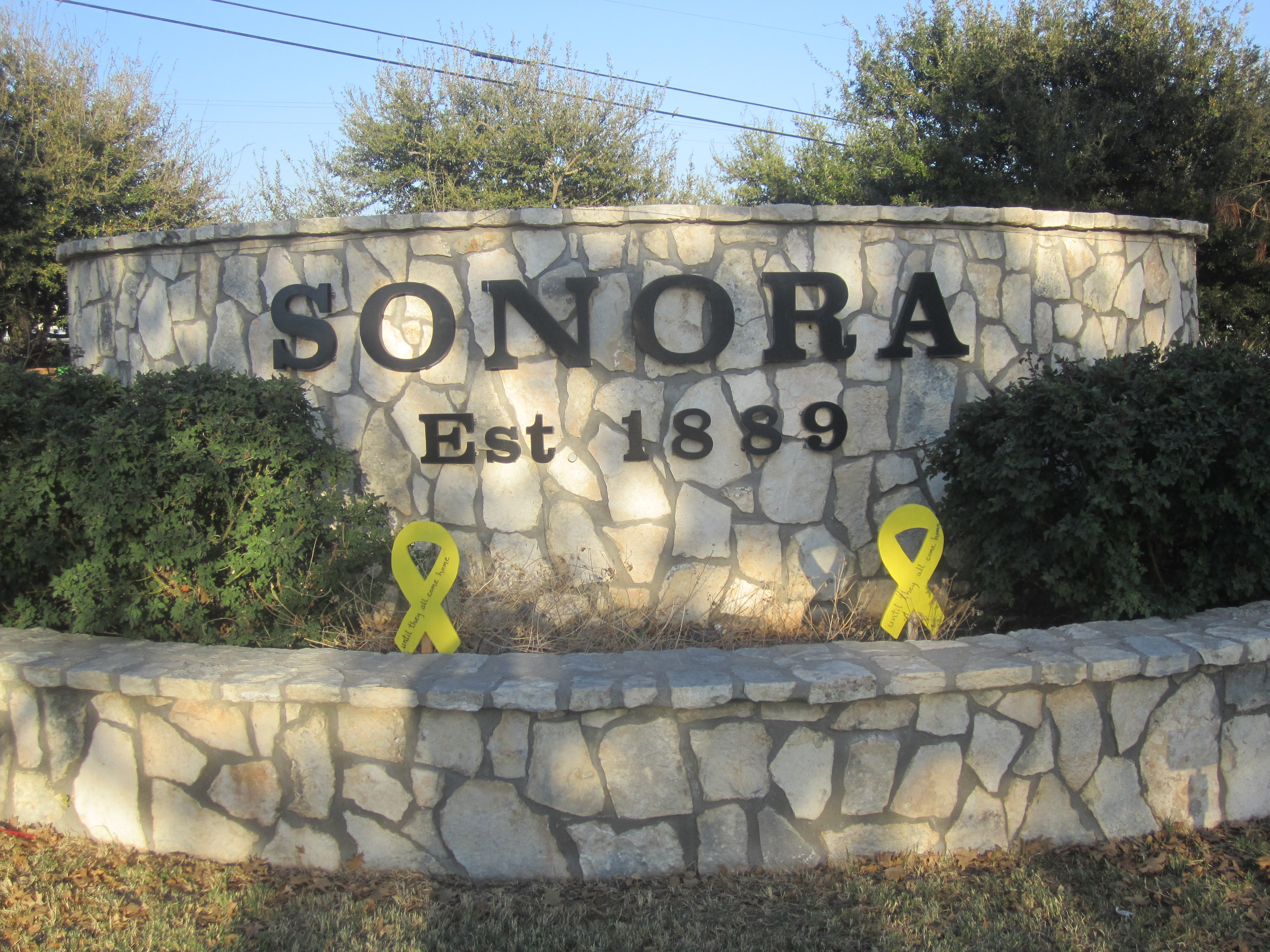 I took photo with Canon camera in Sonora, TX.